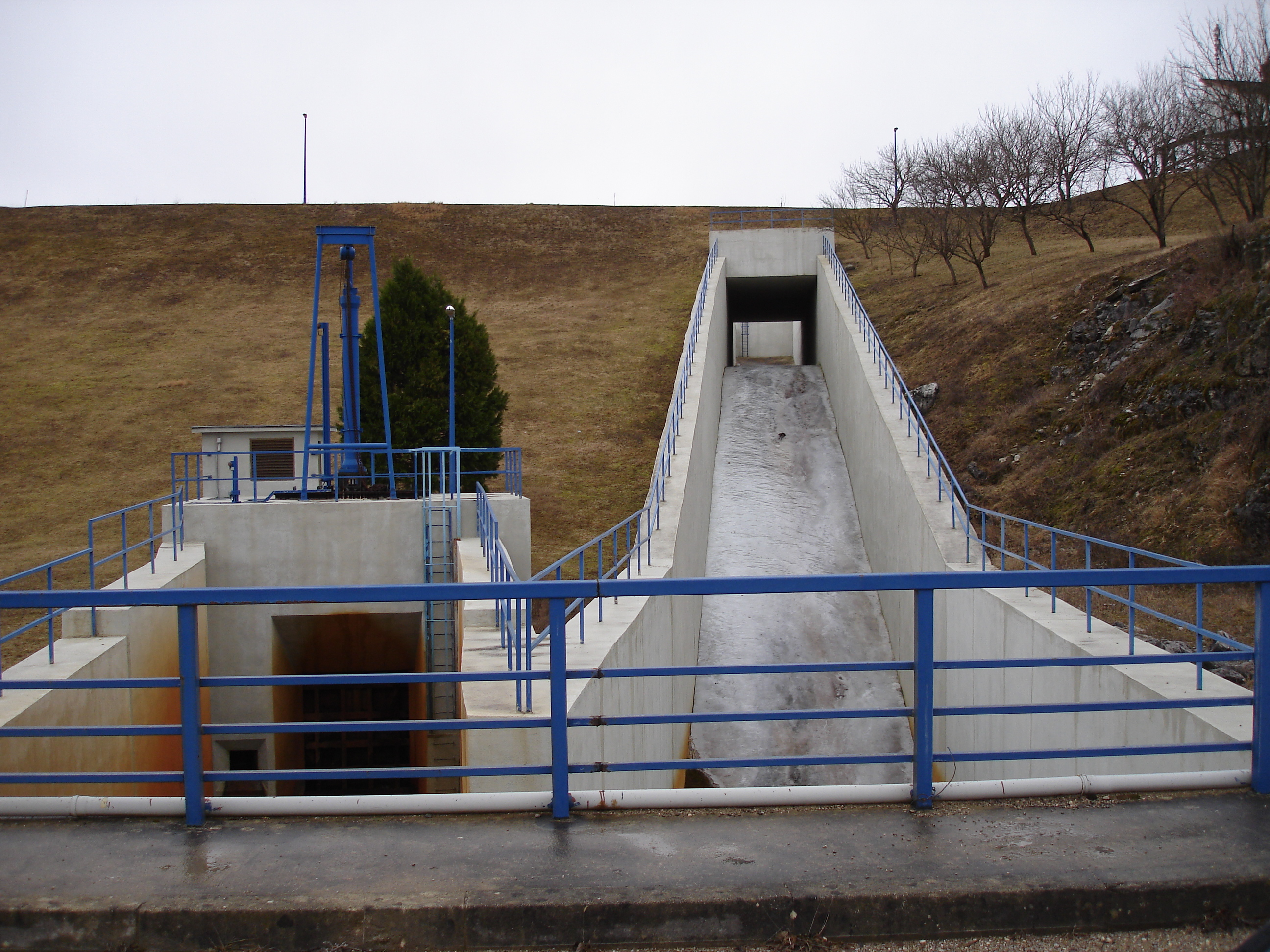 Reservoir Butoniga - Spillway